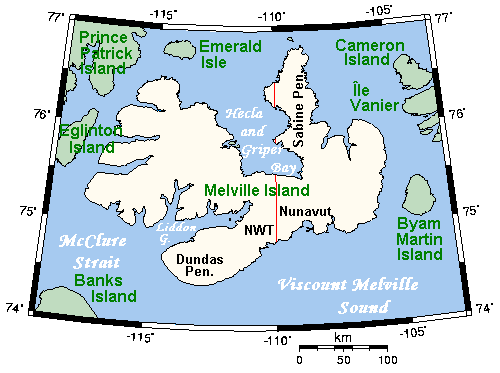 A map of Melville Island, Northwest Territories/Nunavut, Canada.